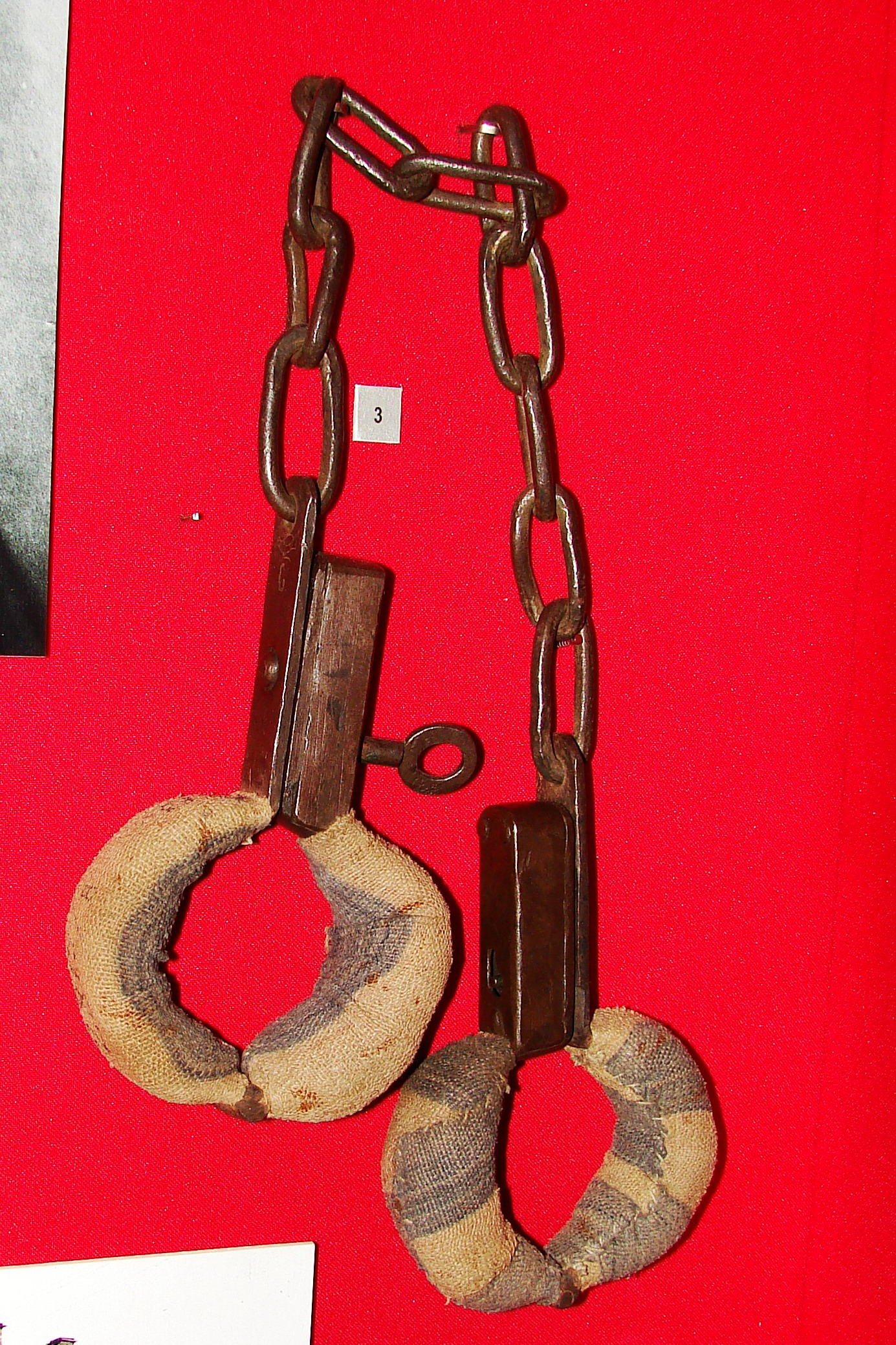 Russia, Shackles in Museum of Deportation in Vologda